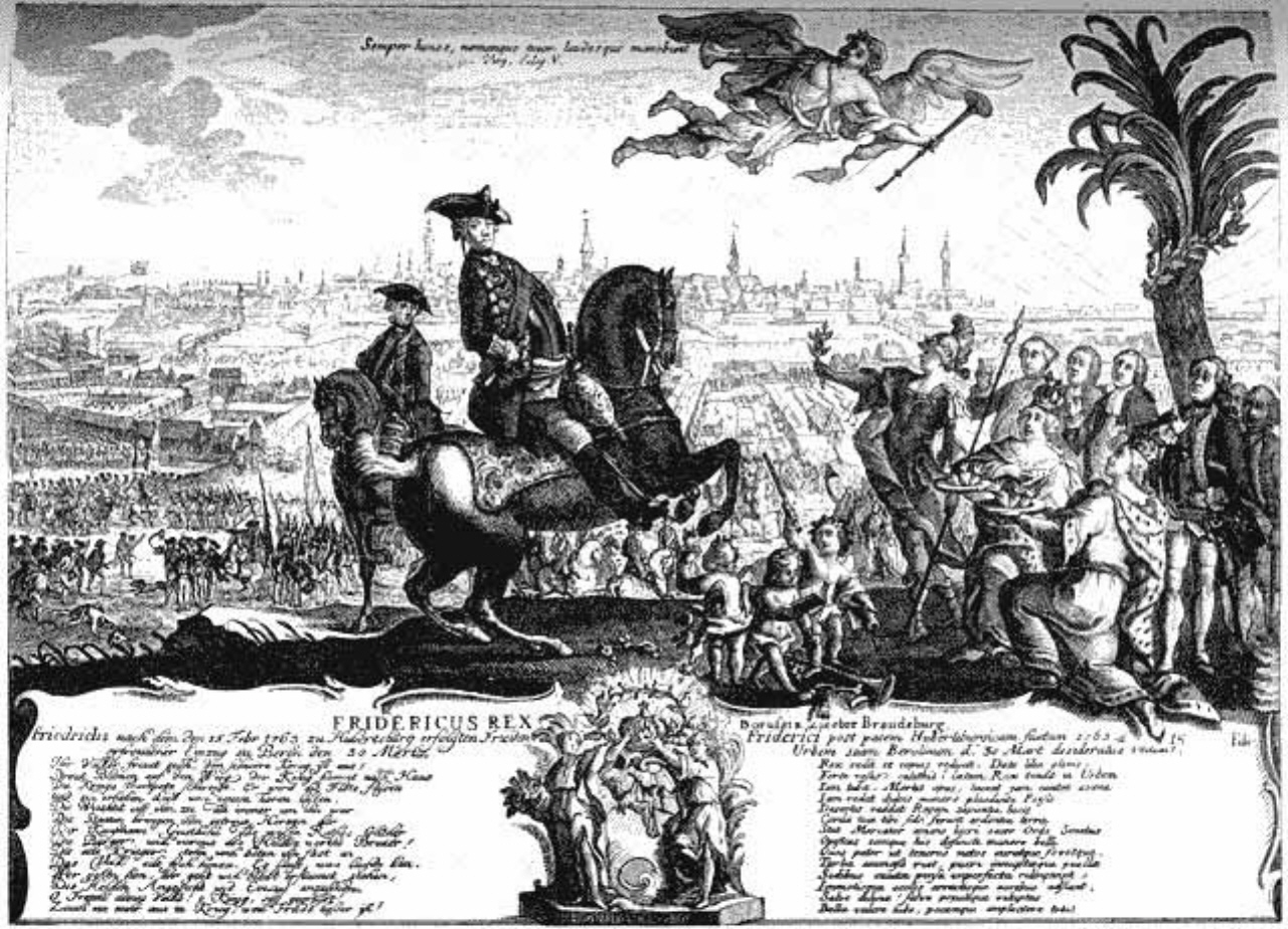 Frederic II entering Berlin, at 30 March 1763, after signing the peace